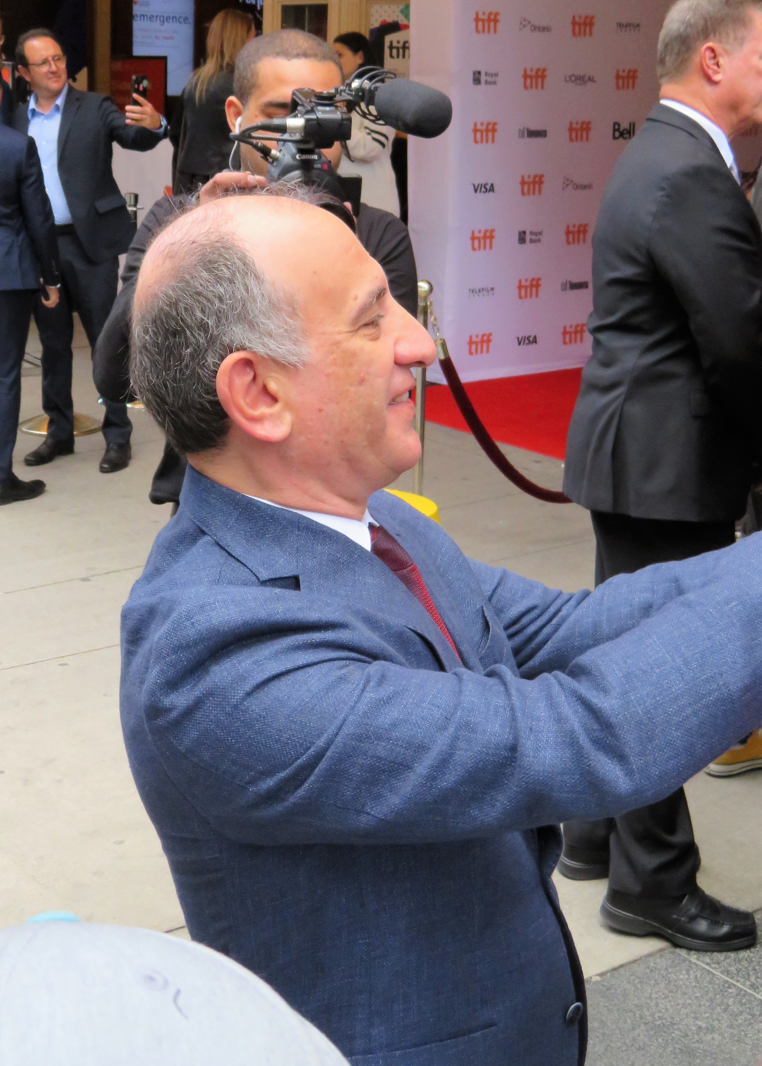 Director Armando Iannucci at the premiere of Death of Stalin, 2017 Toronto Film Festival